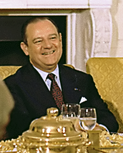 French Prime Minister Raymond Barre during a visit to Washington, September 15, 1977.